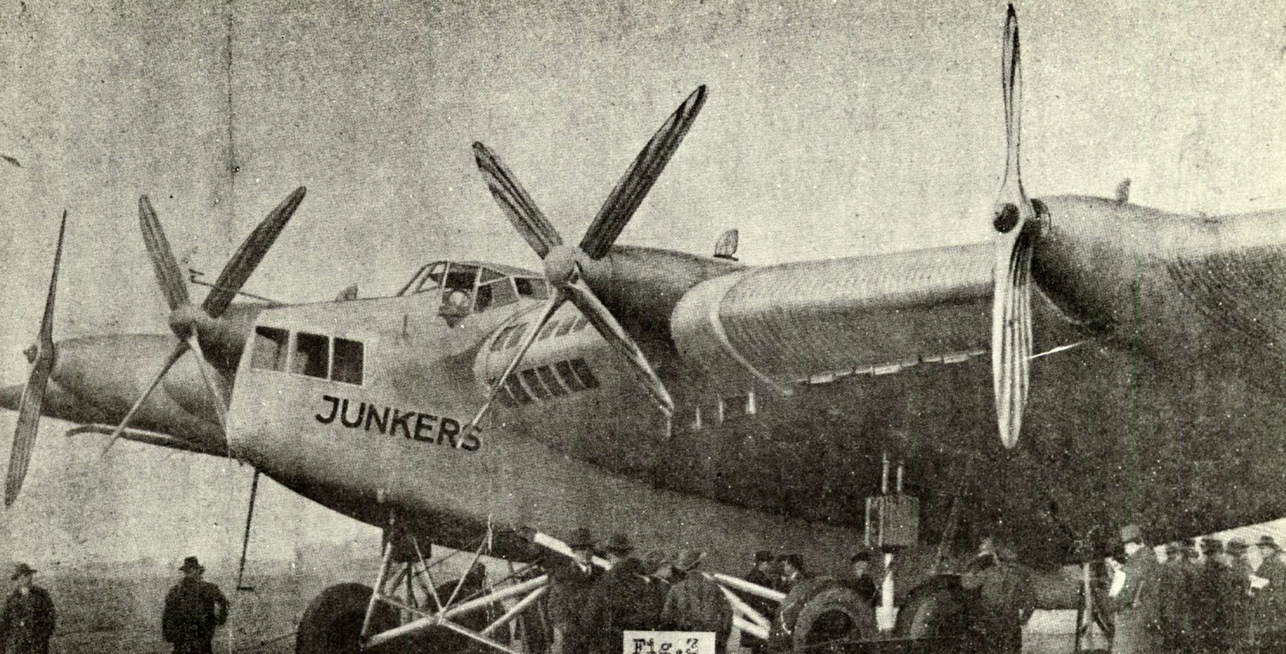 Junkers G 38 photo from NACA Aircraft Circular No.116